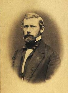 Danish civil servant, diplomat, head of the Foreign Office Peter Vedel (1823-1911)